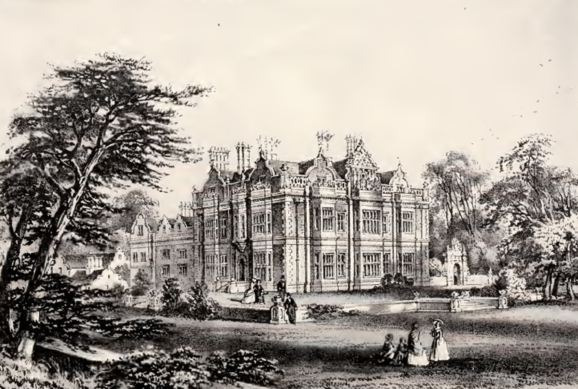 Engraving of Beaumanor Hall in 1850 shortly after it was built